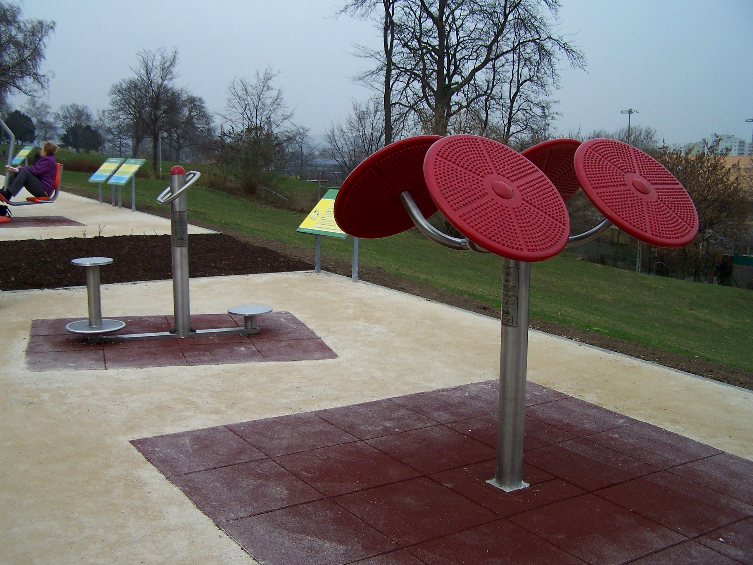 Course for practice training of elderly people at the Bornheimer Hang in Frankfurt am Main-Bornheim, view to north, in March 2011